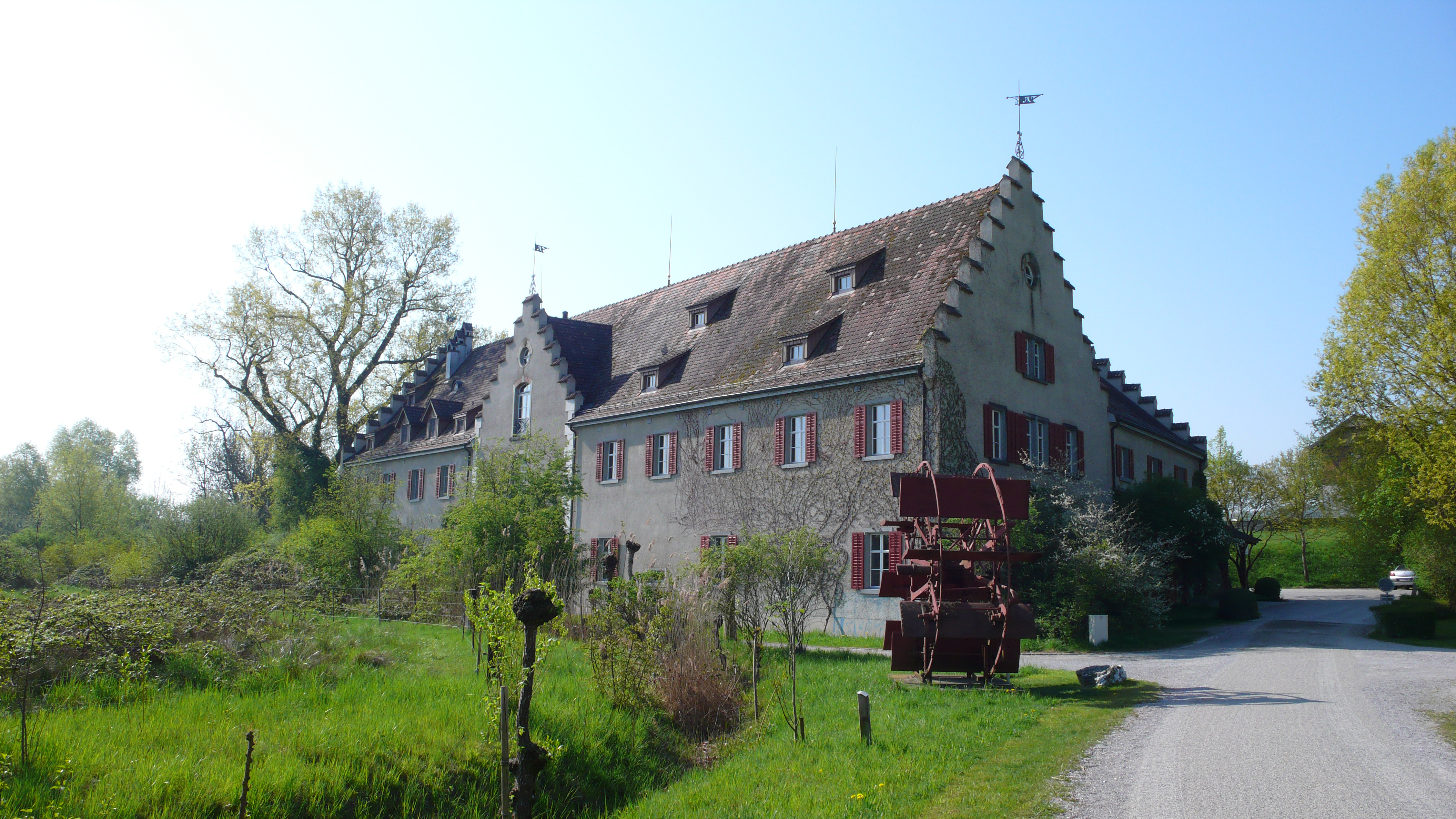 Former granery, now Seemuseum, in Kreuzlingen, Switzerland.